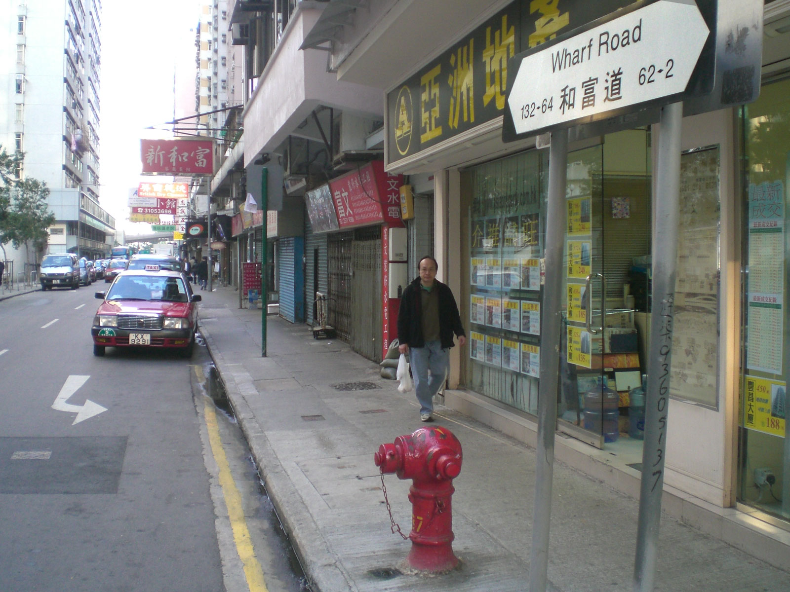 北角 和富道